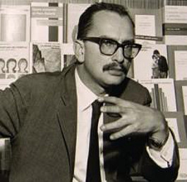 Giangiacomo Feltrinelli